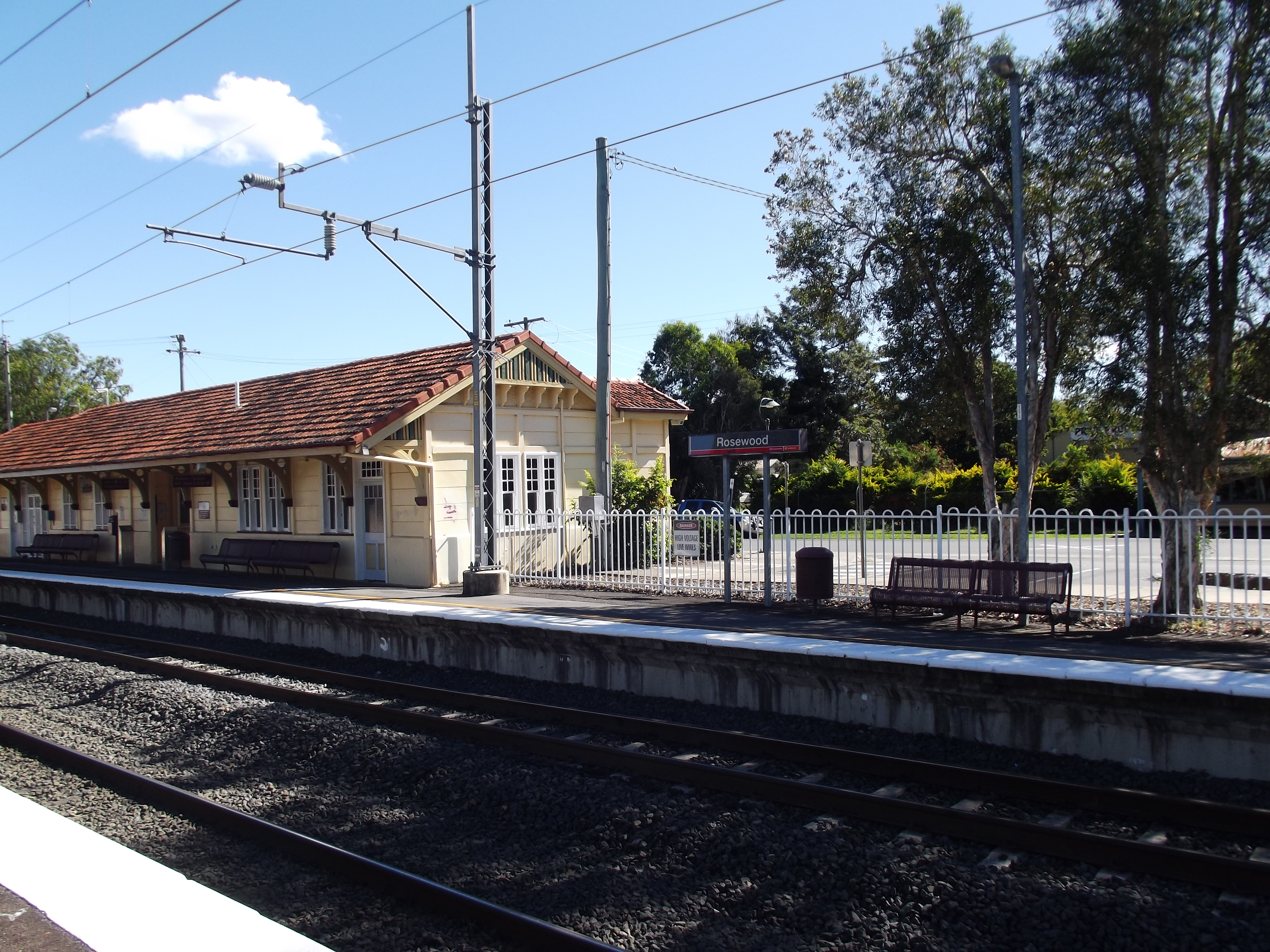 A photo of the Rosewood railway station operated by TransLink, located in Ipswich, Queensland.